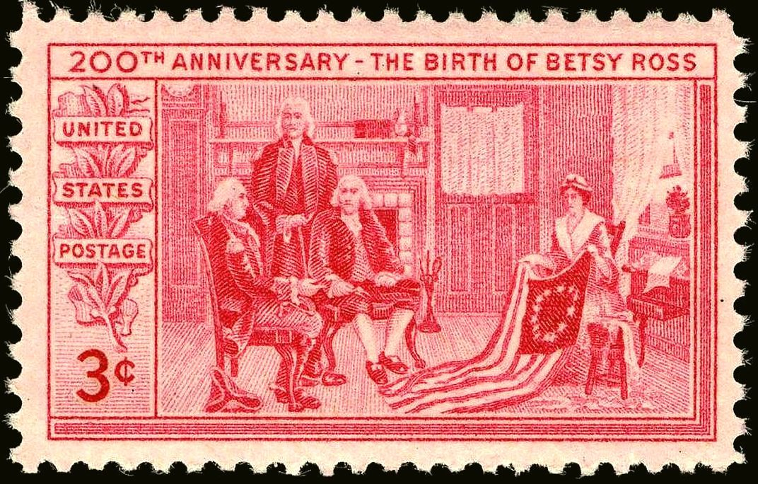 Betsy Ross, maker of first U.S. flag, commemorated on U.S. postage stamp of 1952.